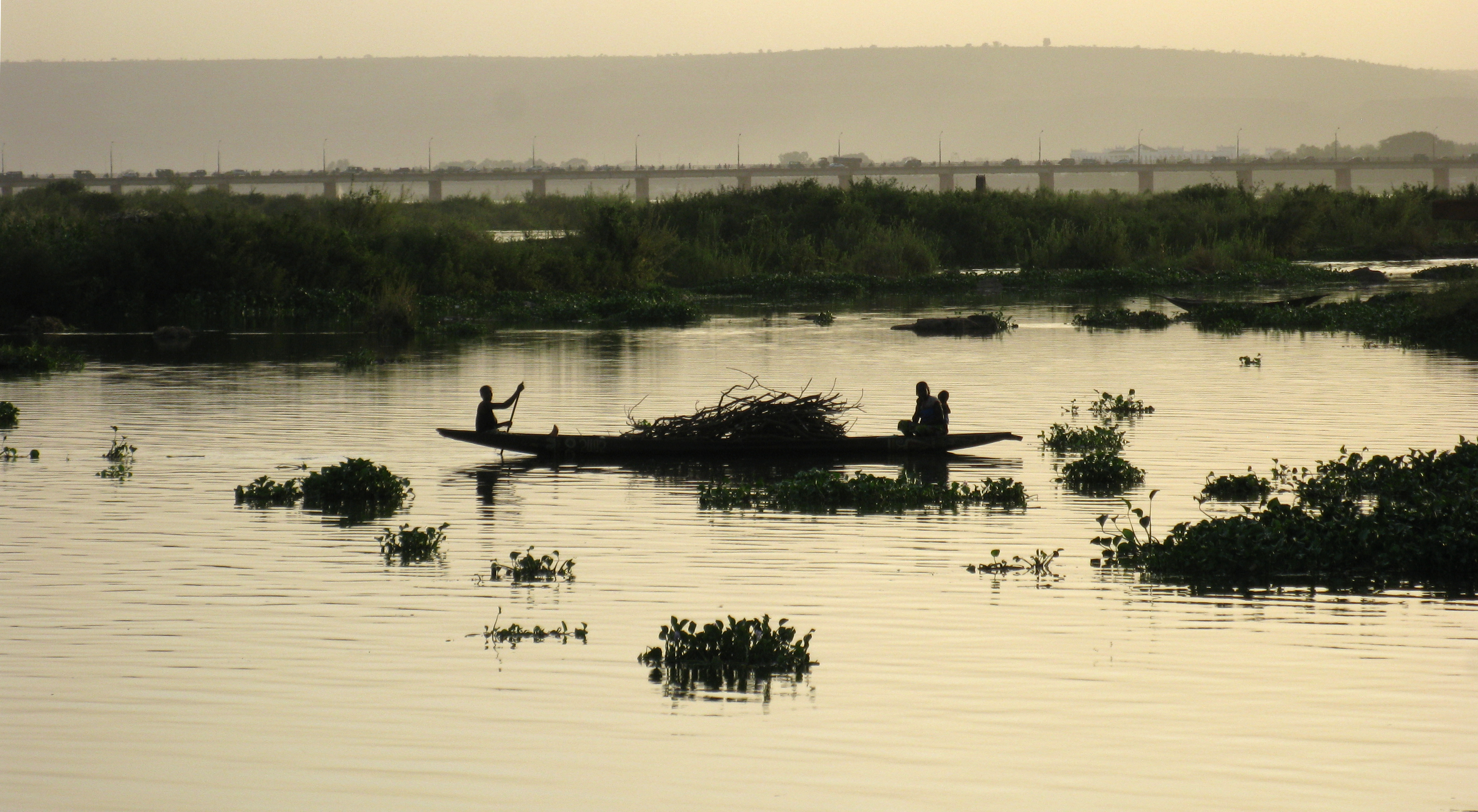 Taken in Bamako, Mali in May 2009. This is an image with the theme "Africa on the Move or Transport" from: Mali